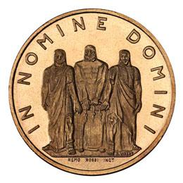 CHF 50 gold coin (obverse). The Swiss National Bank minted 6 million of these coins (2 million each in 1955, 1956 and 1959), but the coins were never given into circulation. In February 2009, Swissmint communicated that most of the coins had been melted back into bullion, excdpt of a remainder 60,000 pieces (20,000 for each year).